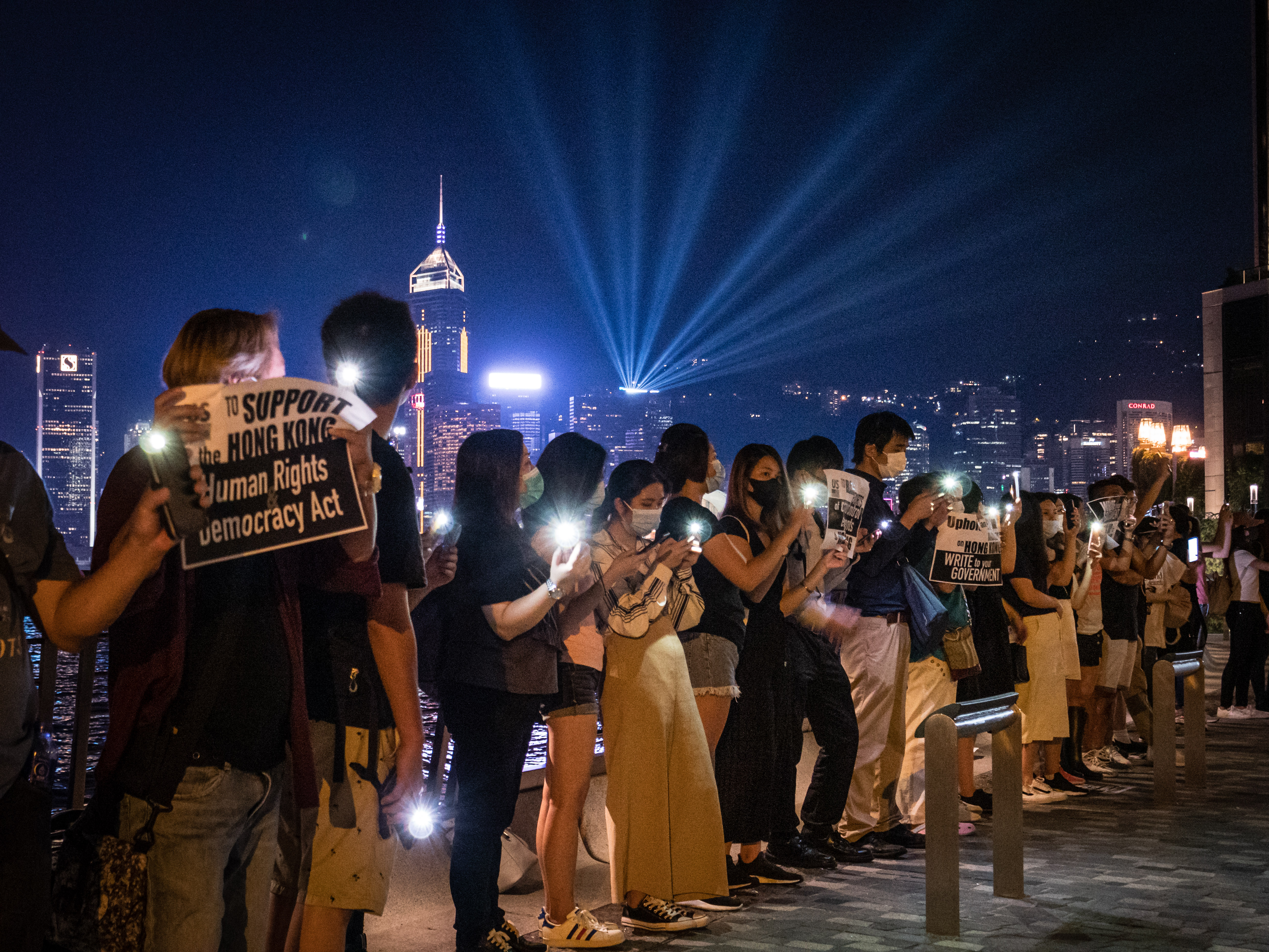 Human chains demonstration against extradition bill in Hong Kong on August 23rd, 2019.